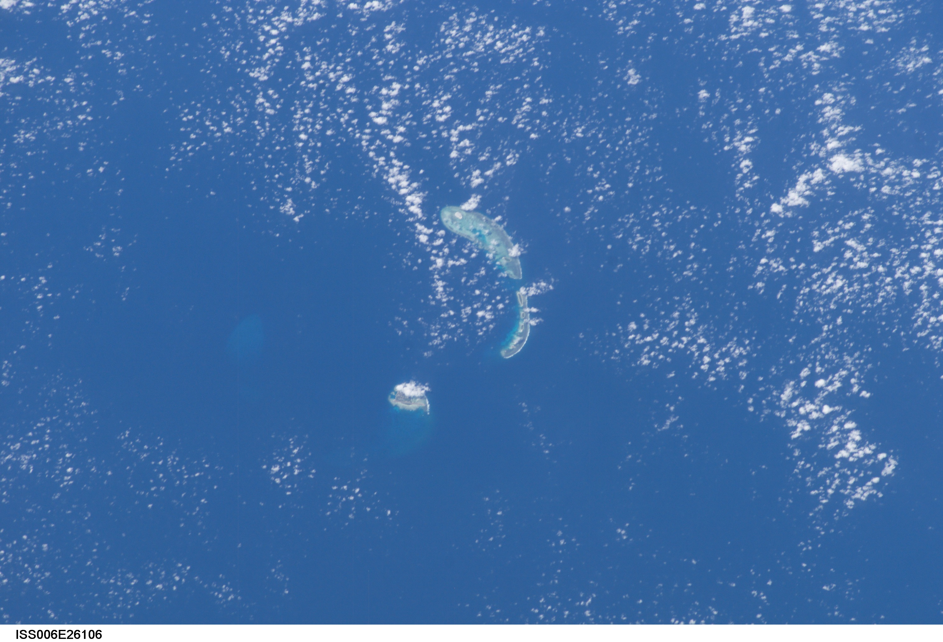 Photograph from the International Space Station of the South China Sea which includes the Anphitrite Group and Woody Island features.